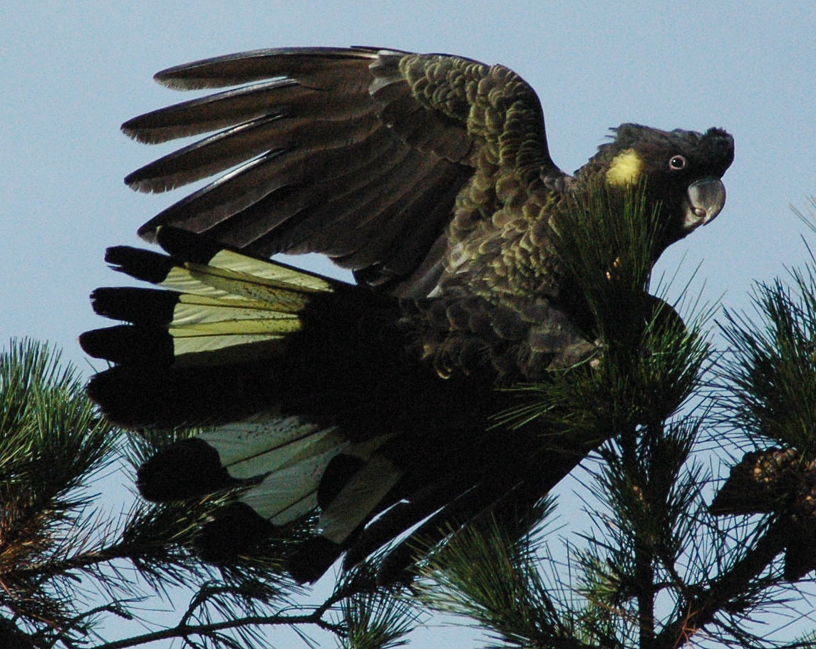 A Yellow-tailed Black-Cockatoo in a pine tree in Tasmania, Australia.